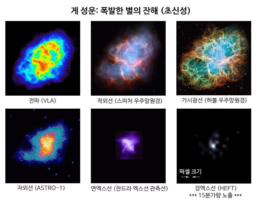 The High Energy Focusing Telescope (HEFT) is a balloon-borne instrument carrying one of the first focusing telescopes for the hard X-ray band (20–70 keV). It makes use of tungsten-silicon multilayer coatings to extend the reflectivity of nested grazing-incidence mirrors beyond 10 keV. HEFT has an angular resolution of 1.5 arcminutes in half-power diameter, and an energy resolution of 1.0 keV full width at half maximum at 60 keV. HEFT was launched for a 25-hour balloon flight on May 2005. The instrument performed within specification, and observed Cyg X-1, the Crab Nebula.